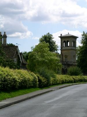 Daniel Aylen, 2004.